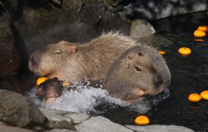 Capybara